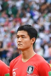 Mexico and South Korea match at the FIFA World Cup 2018-06-23